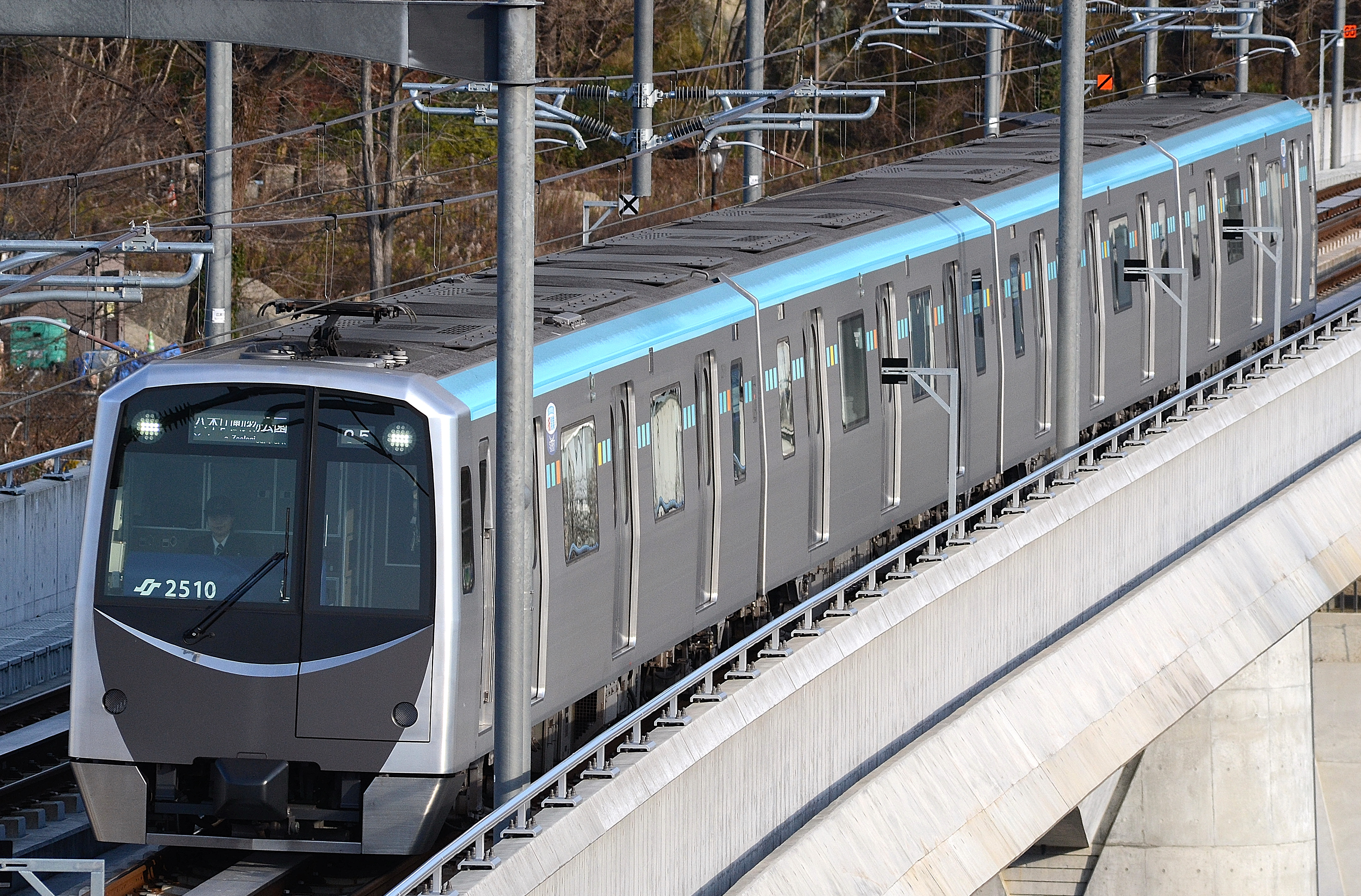 Sendai Subway 2000 series EMU set 2110 on the Tozai Line